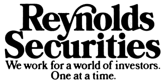 Text logo of Reynolds Securities